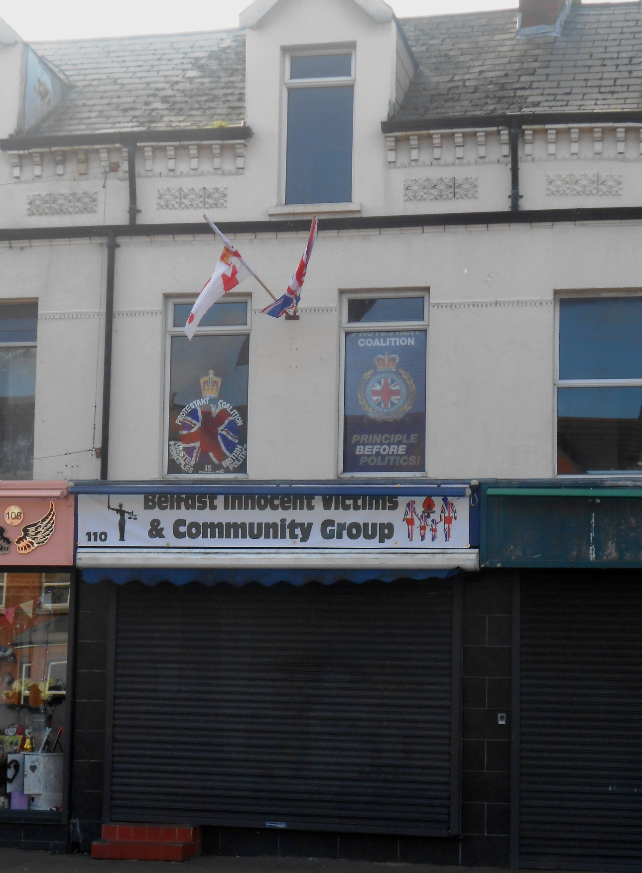 First floor office for the Protestant Coalition, York Road, Belfast